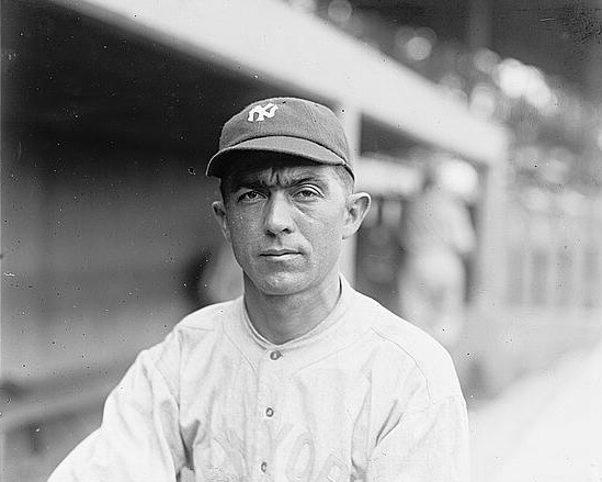 John Franklin "Home Run" Baker (1886 - 1963), an American baseball player